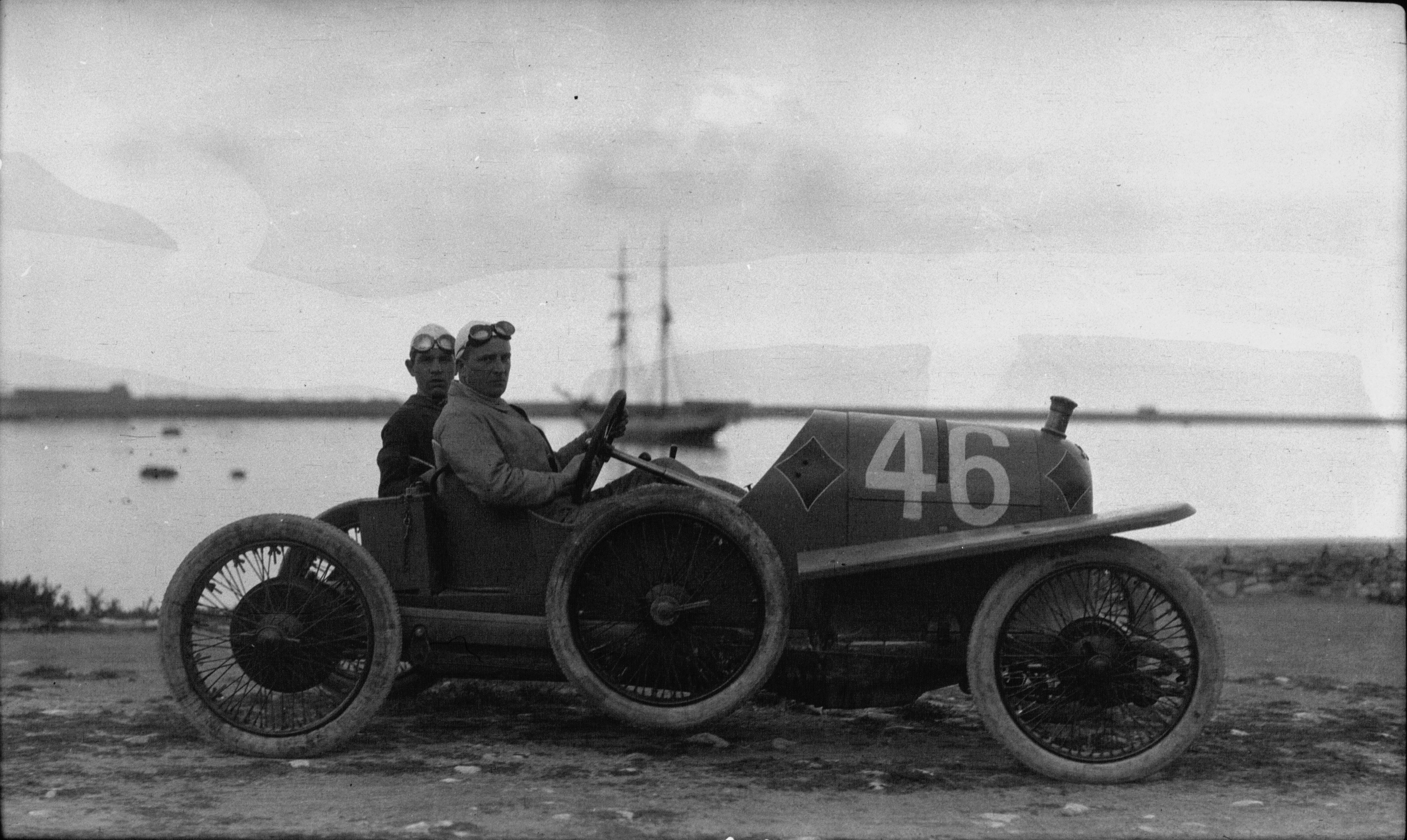 Alfred Neubauer in his Austro-Daimler at the 1922 Targa Florio.